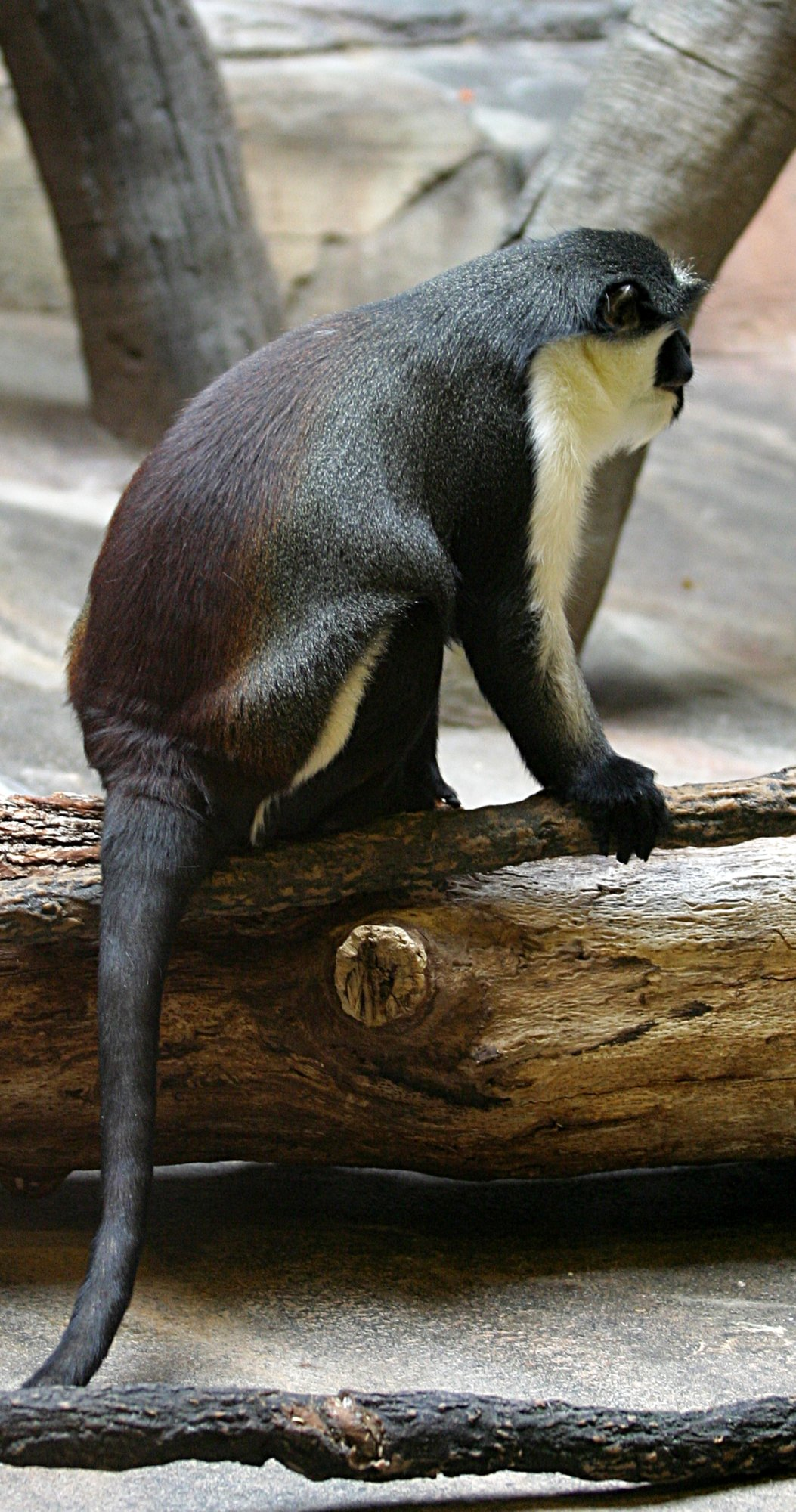 Diana Monkey at the Henry Doorly Zoo in Omaha, Nebraska